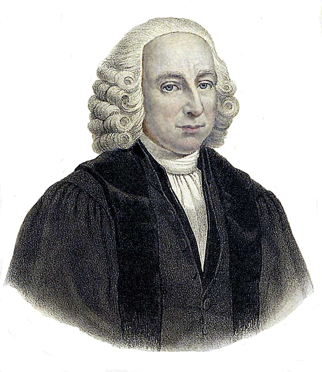 Dionysius van de Wijnpersse (1724-1808) Dutch philosopher